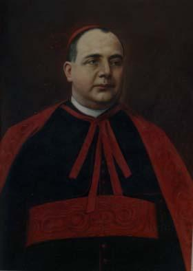 This is the portrait of the Cardinal Luigi Tripepi (Cardeto 21st June 1836 - Rome 29th December 1906) kept in the "Museo di Roma - Palazzo Braschi" (Rome, Italy), close to Piazza Navona, made by the Italian paintor Cazzaitis.